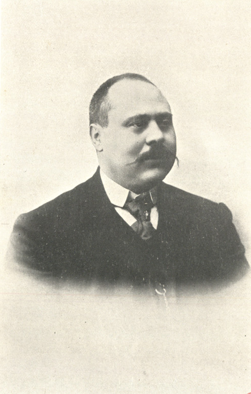 Photograph of Portuguese Republican politician Fernandes Costa, included in the Album Republicano, published in 1908.